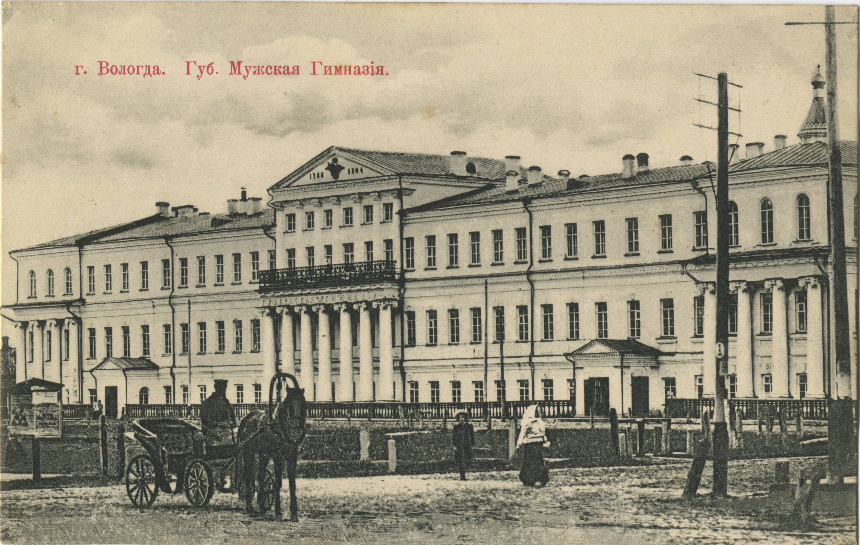 Russia, Vologda, Men's Gymnasium (hospice)